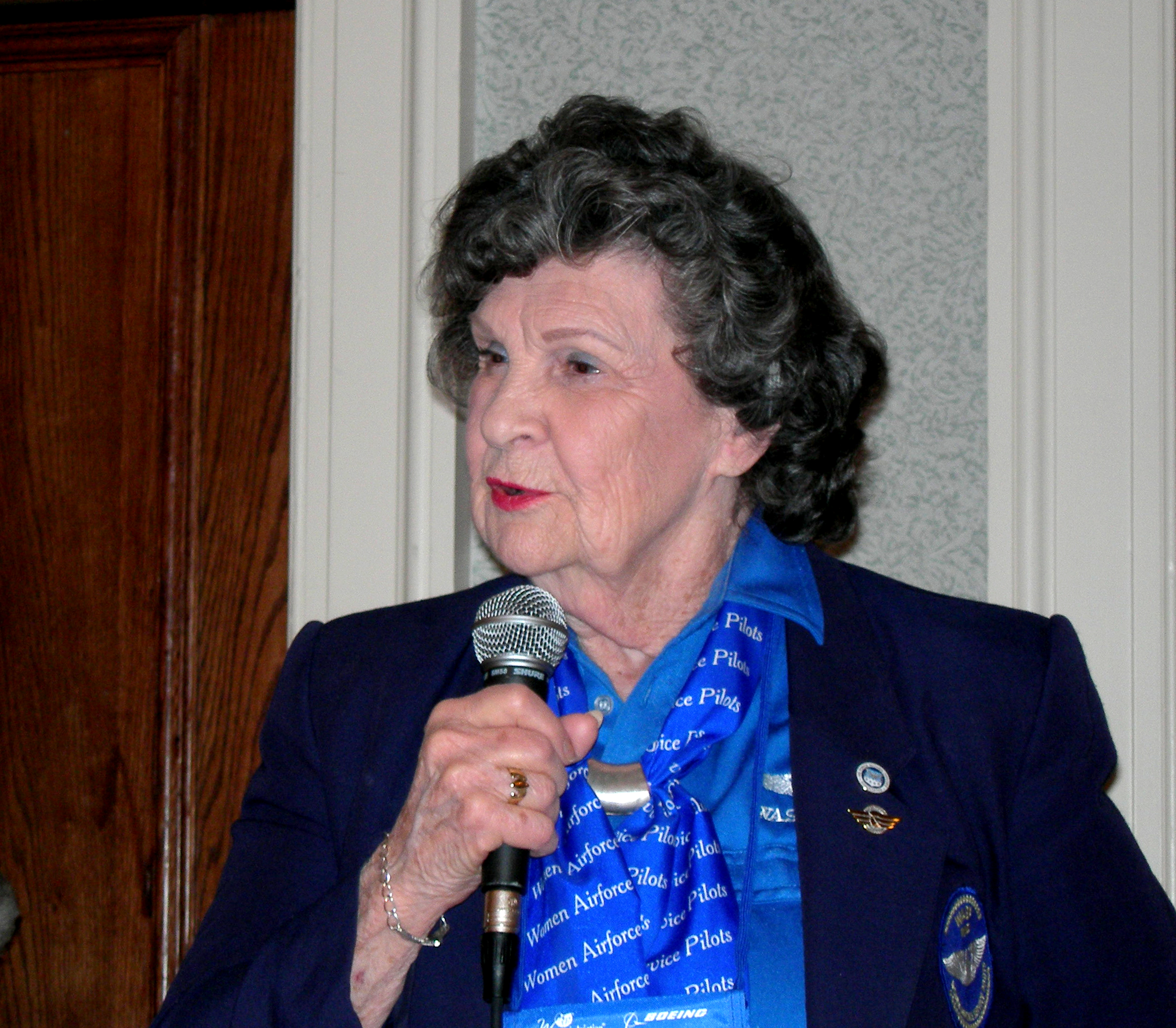 Retired Air Force Lt. Col. Betty Jane Williams speaks during a Women Airforce Service Pilots, or WASP, panel at the 17th Annual Inernational Women in Aviation Conference in Nashville, Tenn., Saturday, March 25, 2006. Colonel Williams was inducted into the organization's Pioneer Hall of Fame.